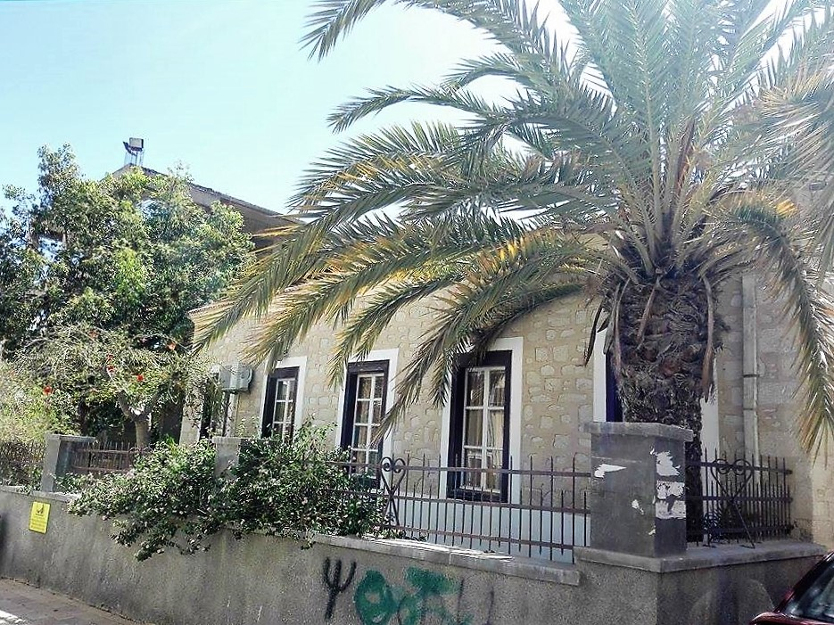 Mavroforos' house in Ierapetra